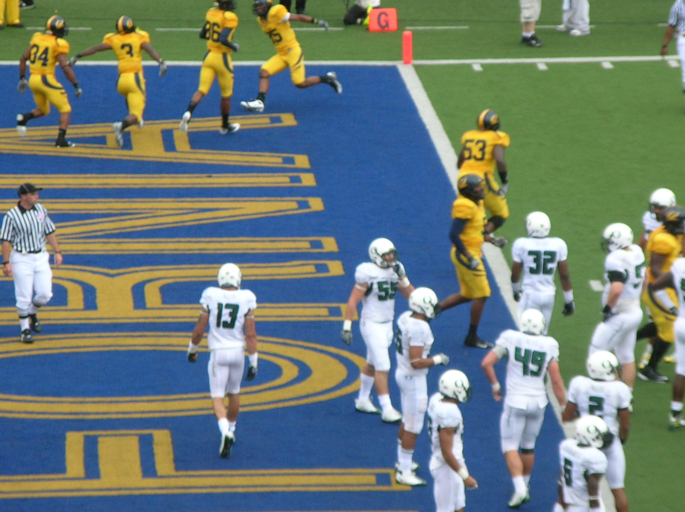 The Bears celebrate a touchdown at a Cal home game in the rain against the Oregon Ducks. The Golden Bears won 26-16.